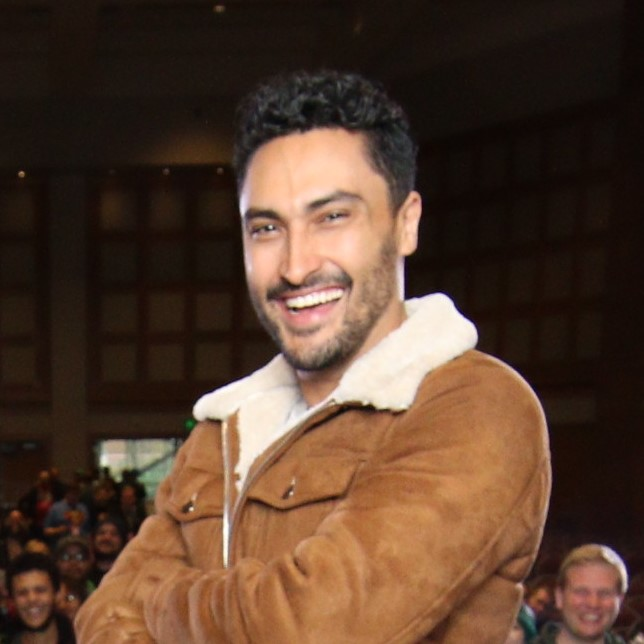 Overwatch Q&A with Jonny Cruz and Josh Petersdorf GalaxyCon Minneapolis 2019.